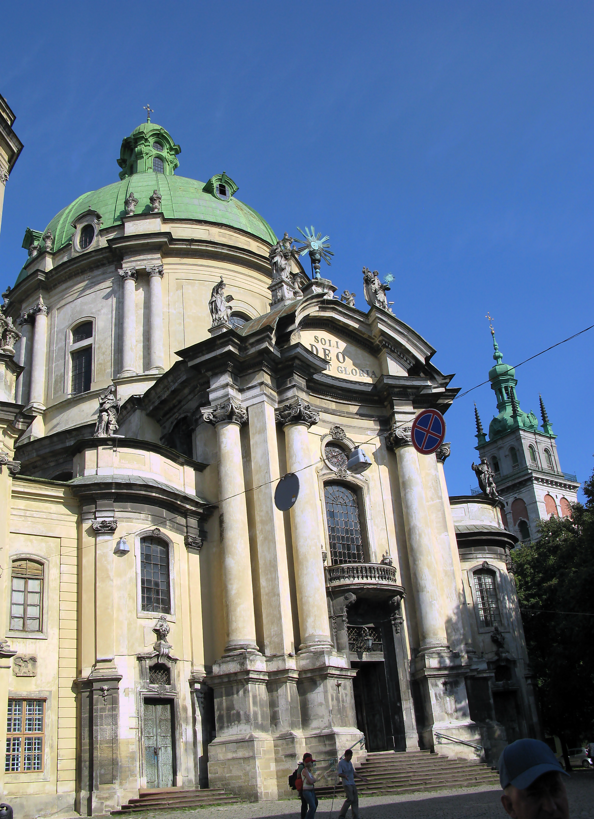 Dominican church in Lviv